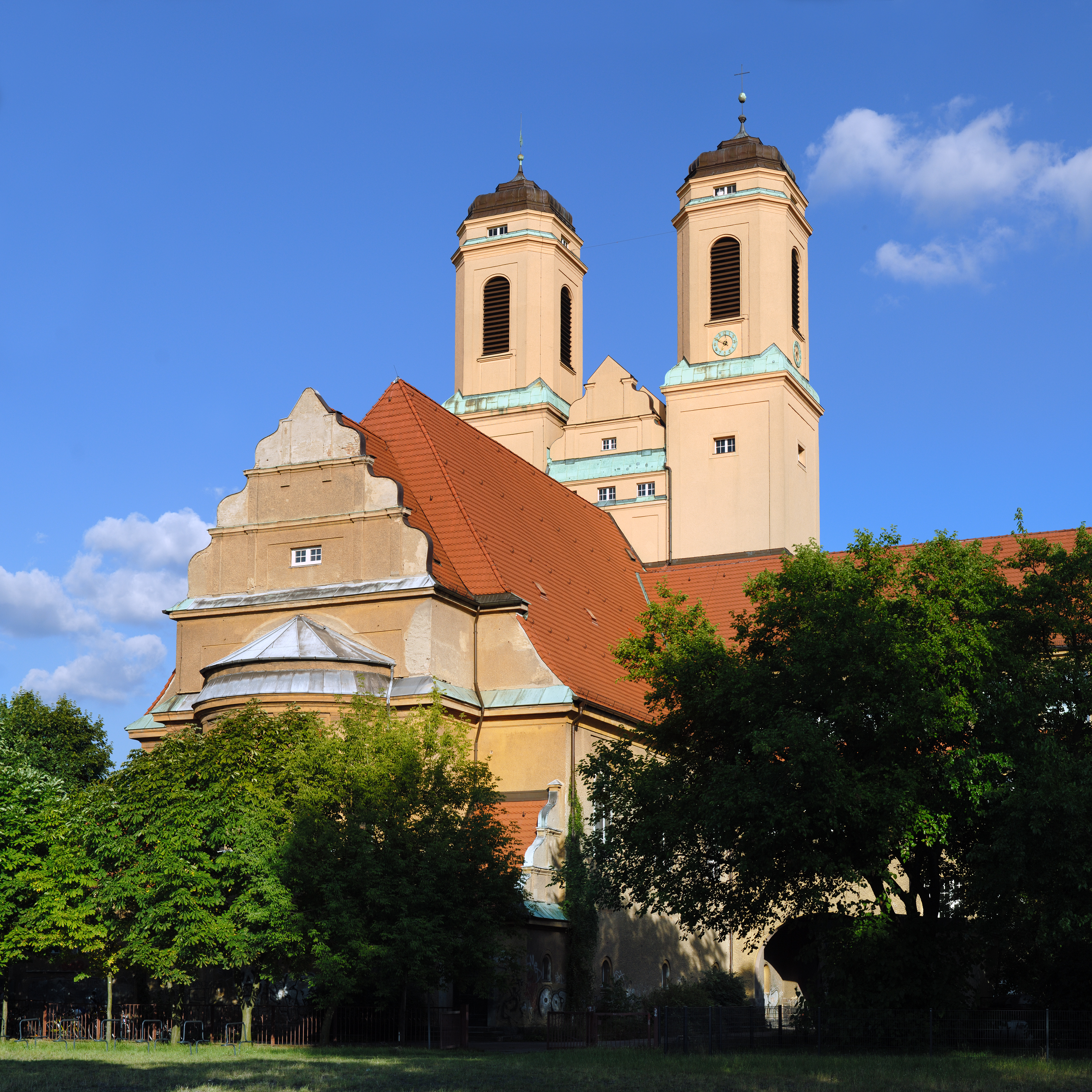 This image shows the church "Zum Vaterhaus" ("to the parental home") in Berlin, Germany. It is a six segment panoramic image.